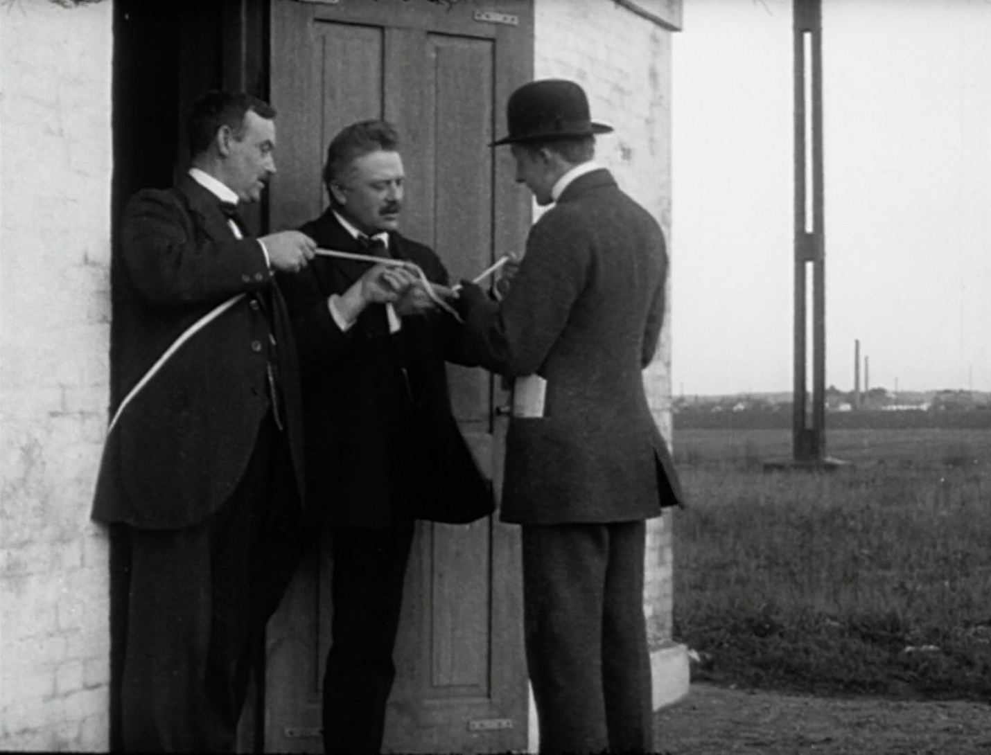 Screenshot from the Danish silent film "Ingeniør Valdemar Poulsen paa sin Station for traadløs Telegrafi" featuring the engineer Valdemar Poulsen at his station for wireless telegraphy and telephony. Unknown person, Valdemar Poulsen and the journalist Anker Kirkeby.